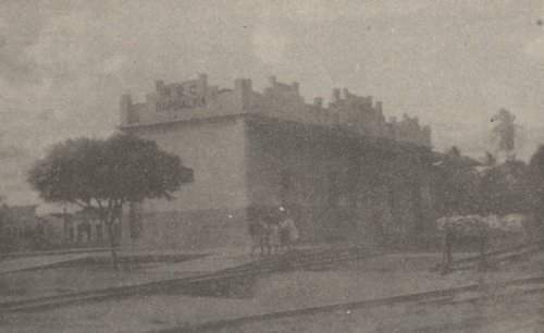 Train Station of Barbalha in 1959.